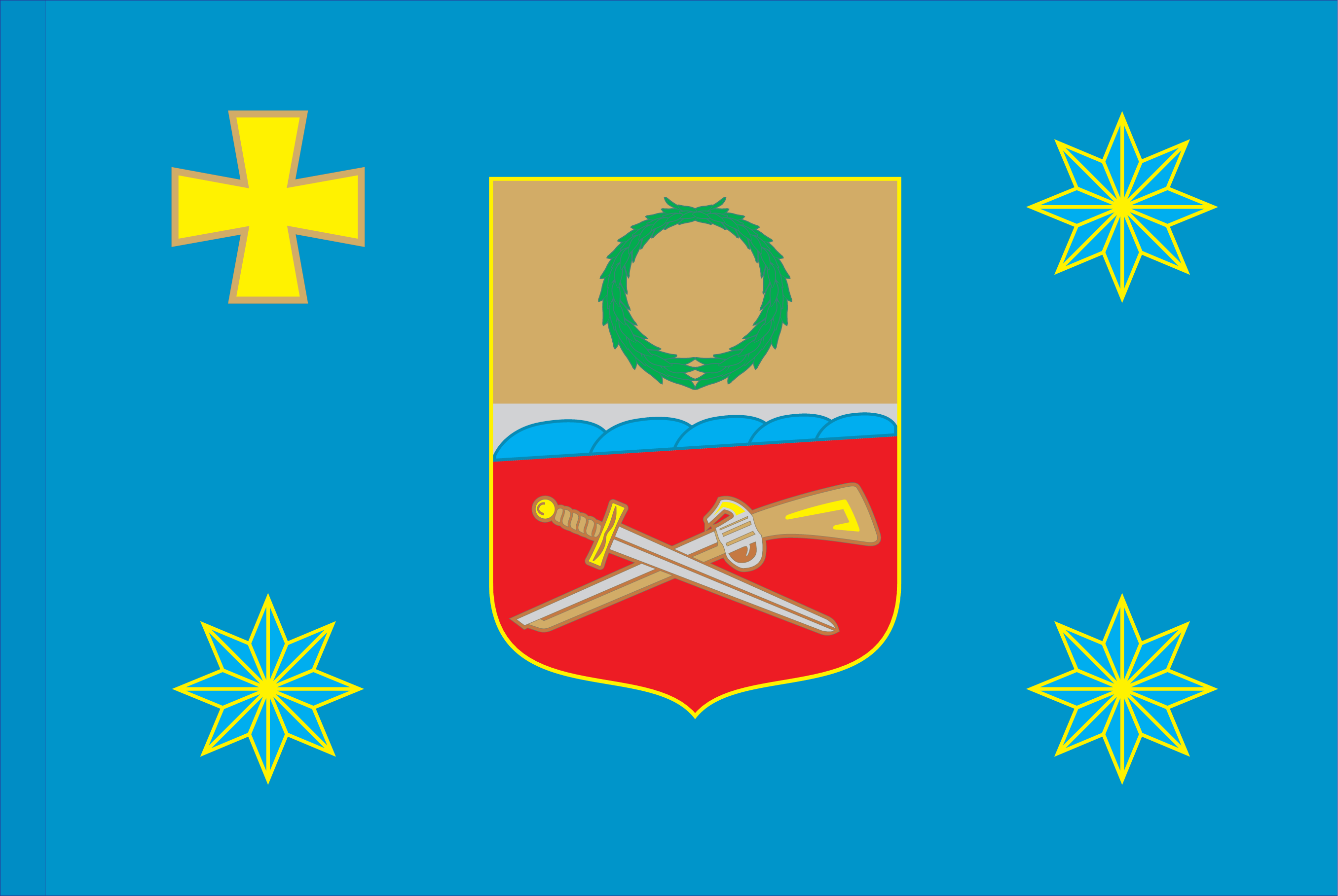 better, than File:Kobelak.gif